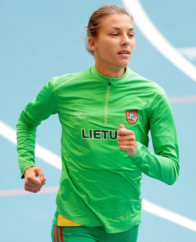 Egle Balciunaite on 14th IAAF World Championships in Athletics